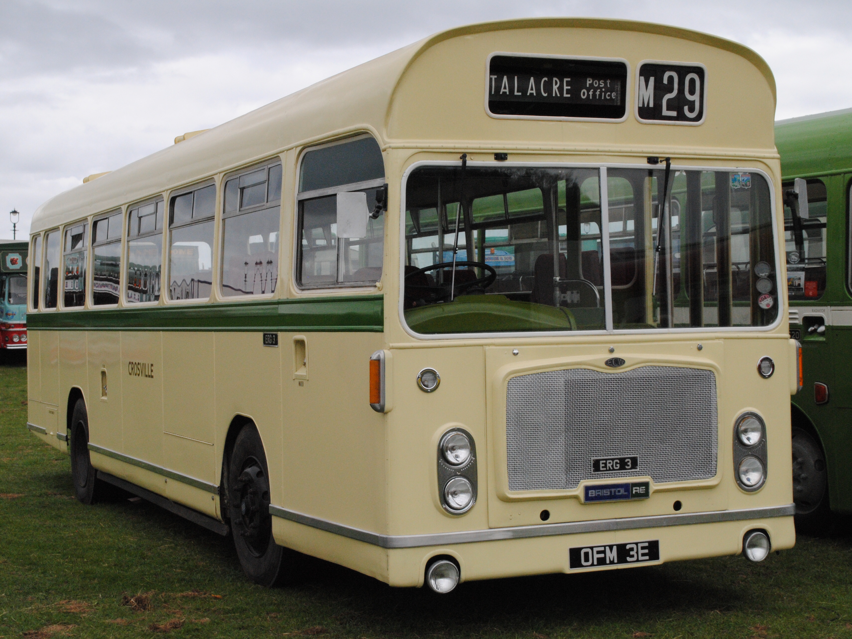 Bristol RE. seen here in Llandudno Transport Festival 2013